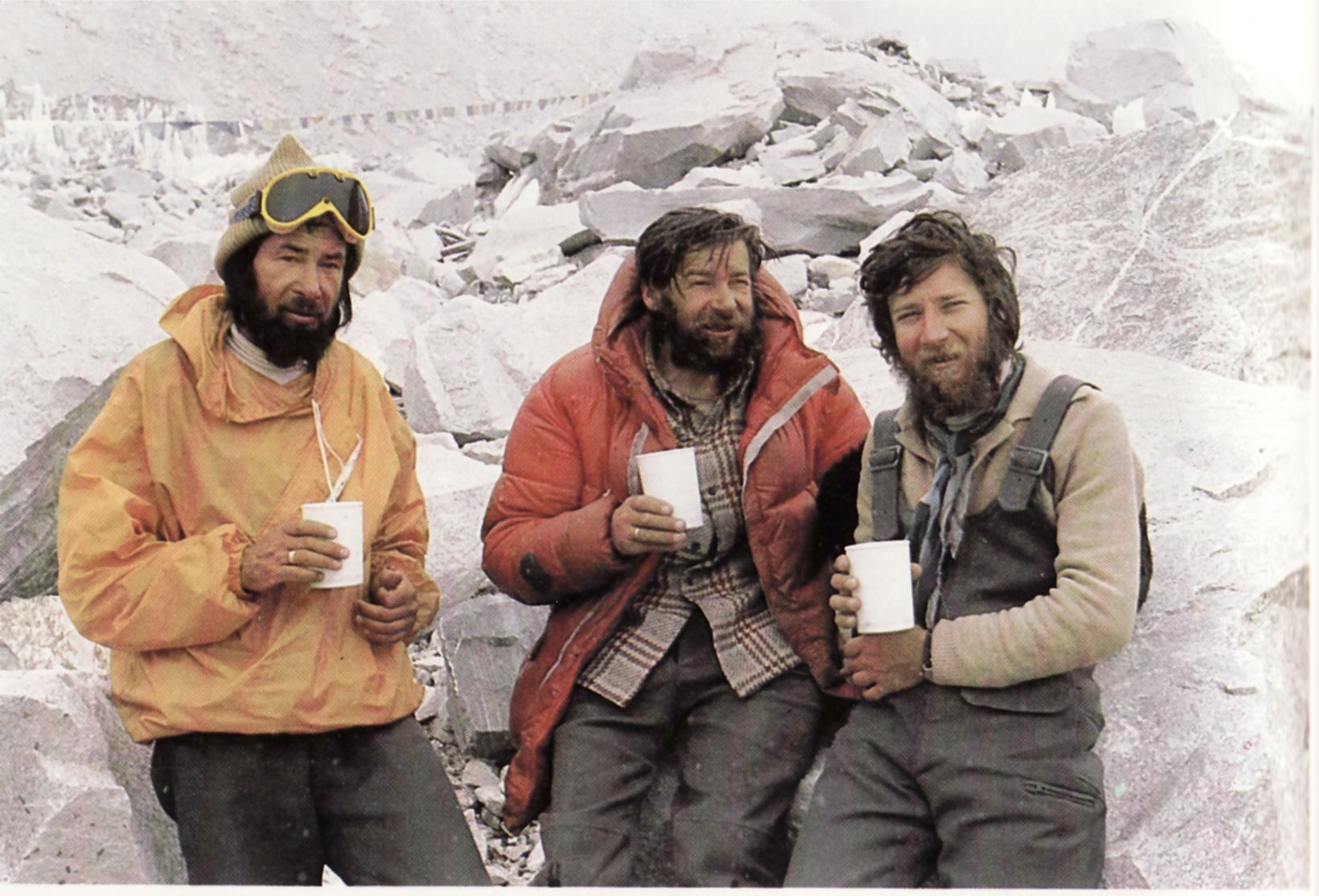 Andrzej Heinrich, Kazimierz Olech and Andrzej Czok rest in the base camp during 1980 spring expedition to Mount Everest.